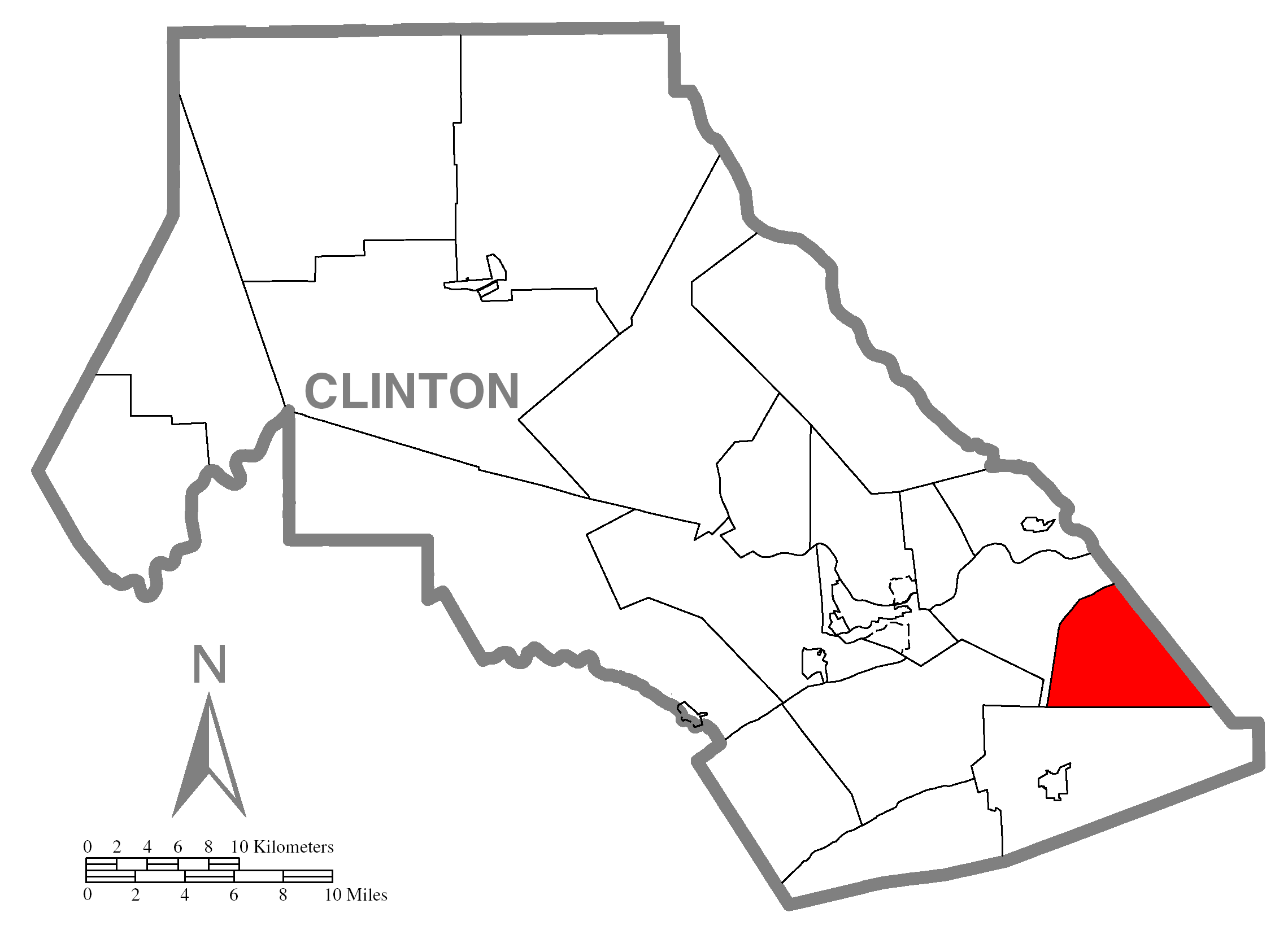 A map of Clinton County showing Crawford Township, Pennsylvania (alternate) highlighted on the map.